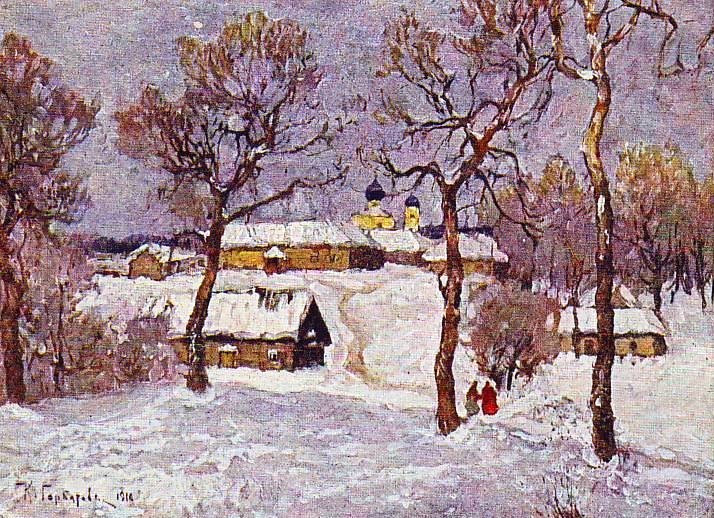 This is picture of russian painter Konstantin Gorbatov "Zima" (Winter).